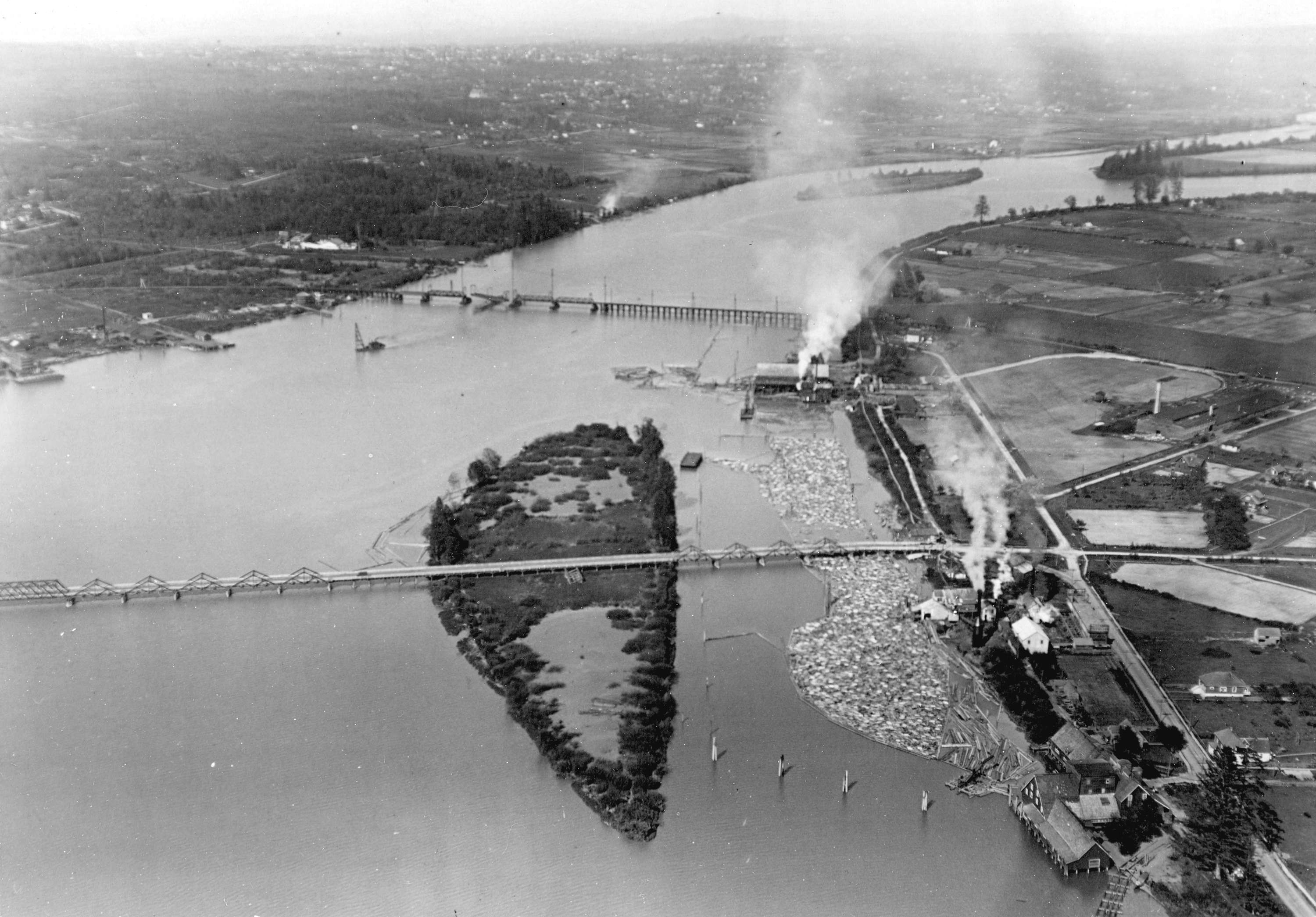 Metro-Vancouver bridges